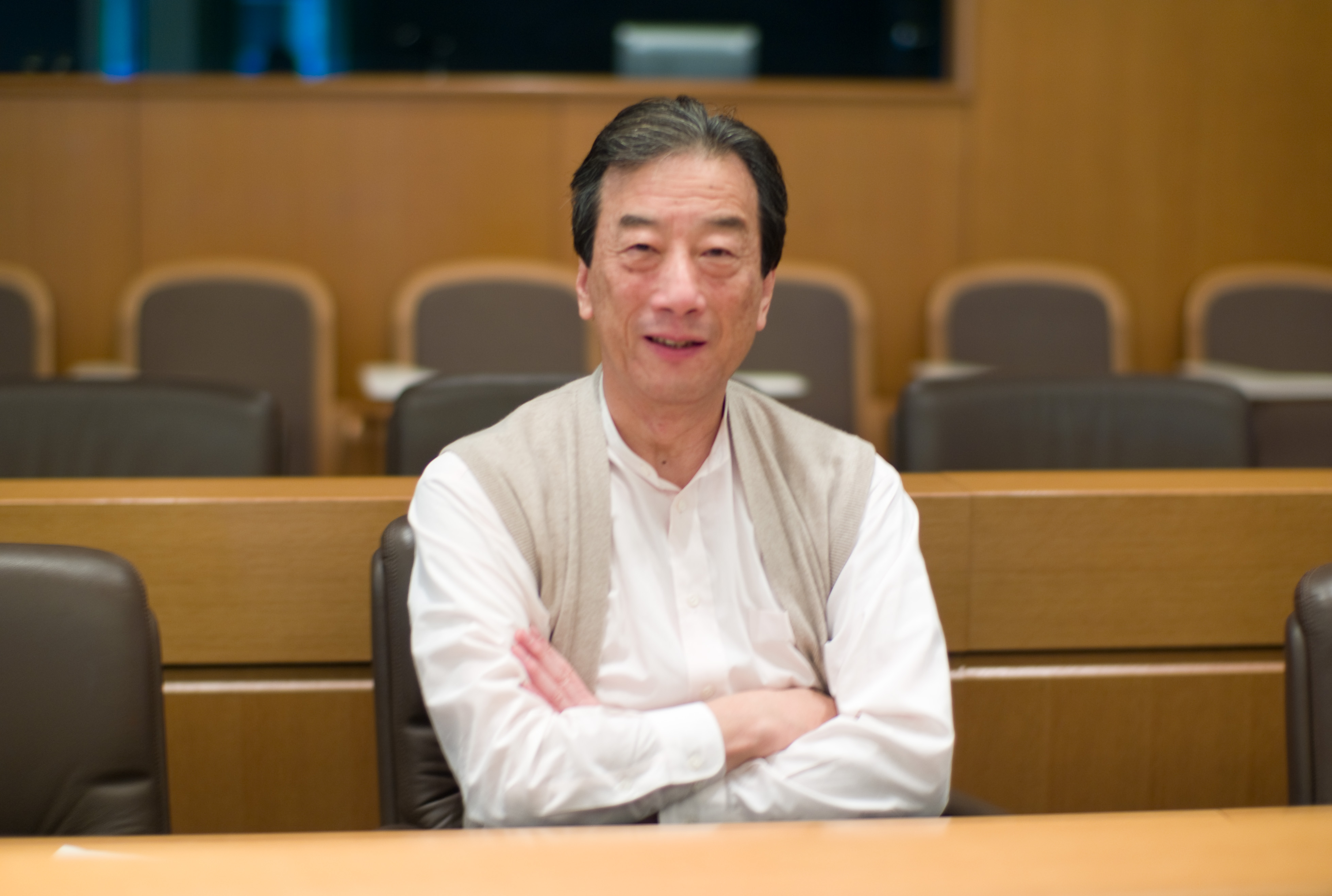 Kiyoshi Kurokawa, Professor of the Graduate School of Policy Studies, the National Graduate Institute for Policy Studies, spoke at the New Context Conference in Tōkyō Metropolis on November 4, 2008.